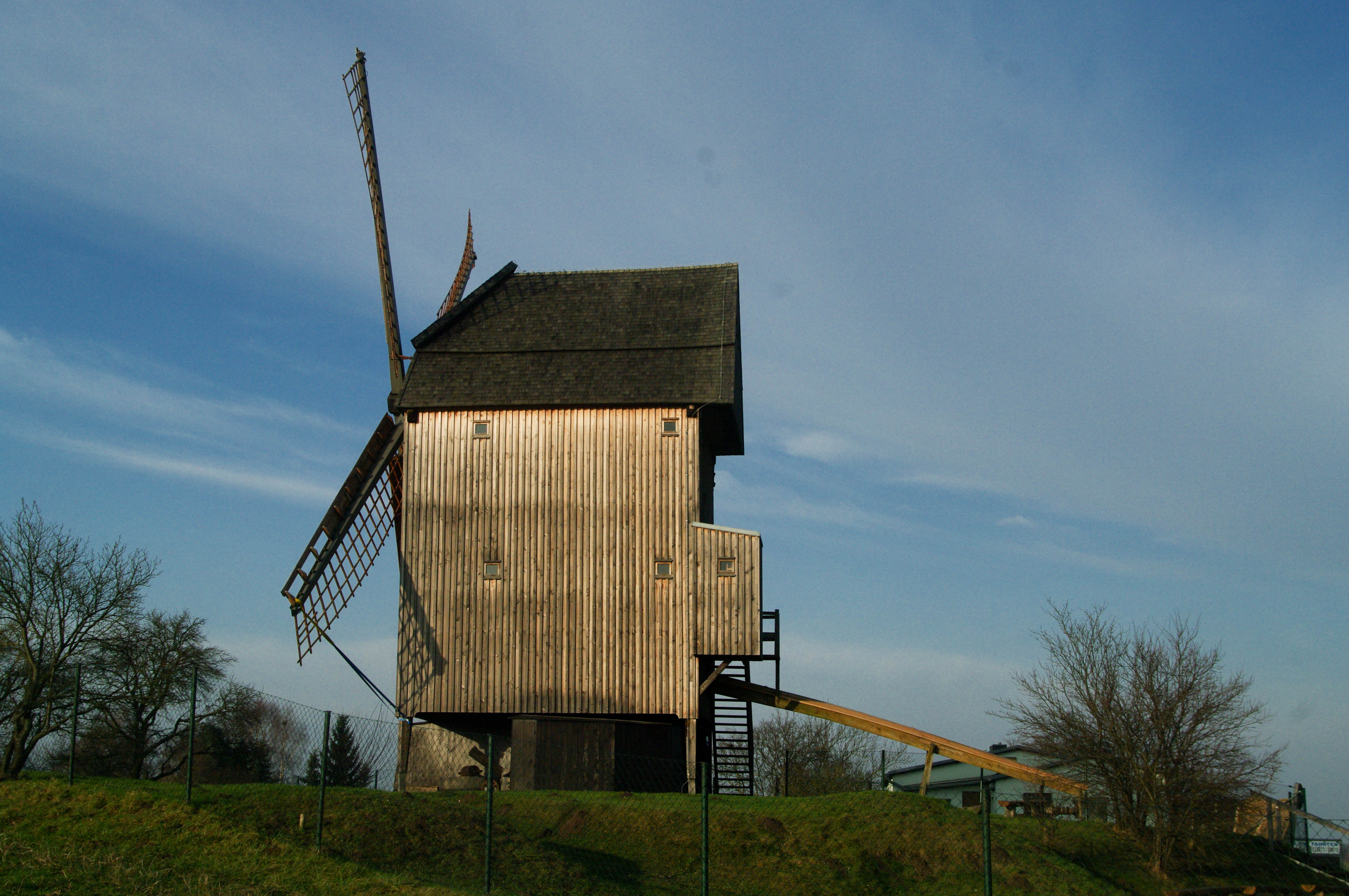 Vehlefanz, Brandenburg, Germany in winter